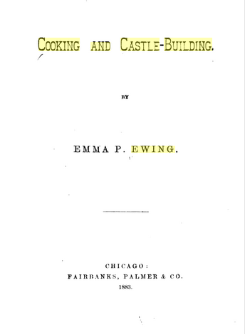 Cooking and Castle-building, By Emma Pike Ewing